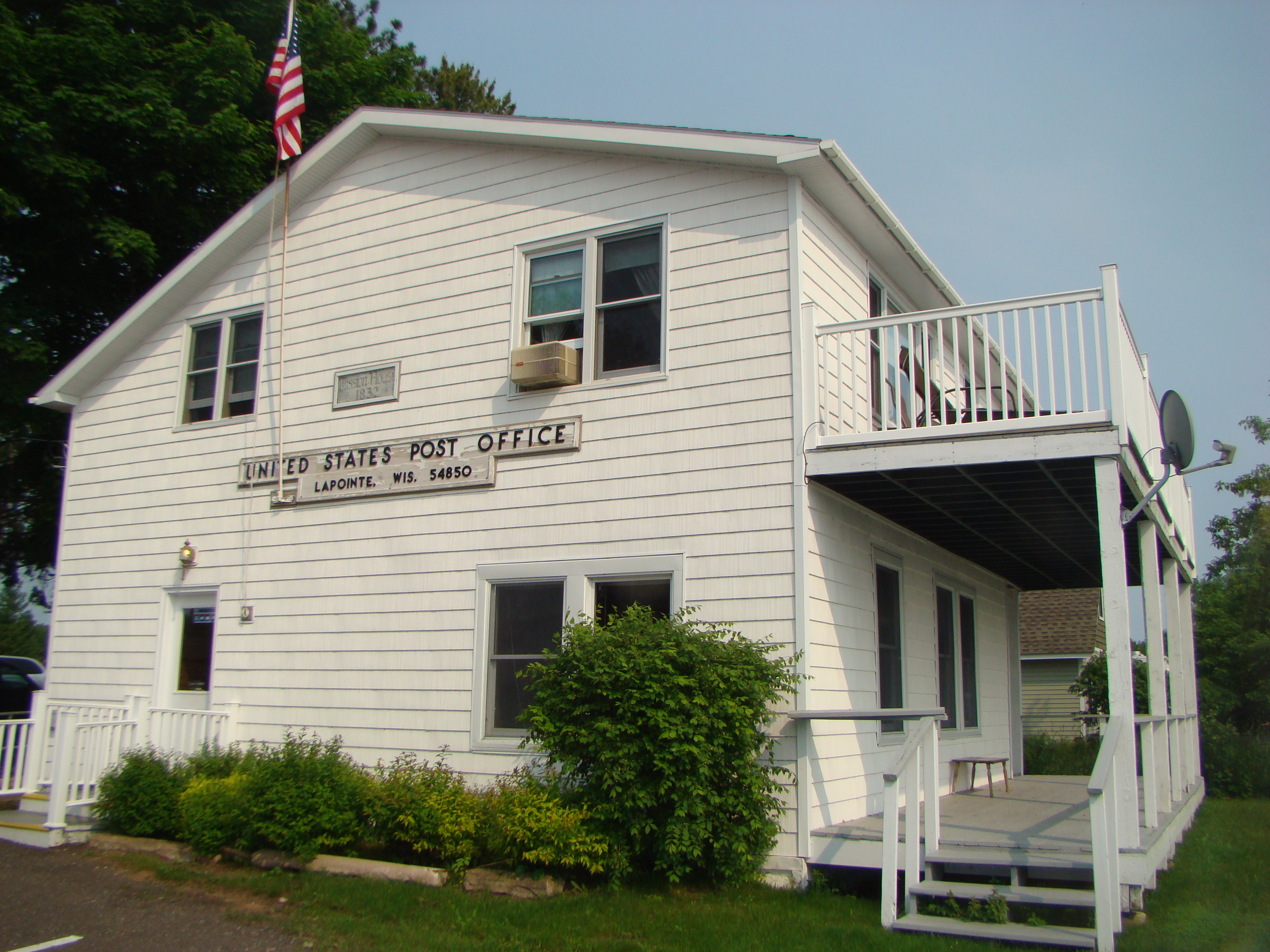 Photograph of the Madeline Island Post Office. The historic building used to be part of the Old Mission.